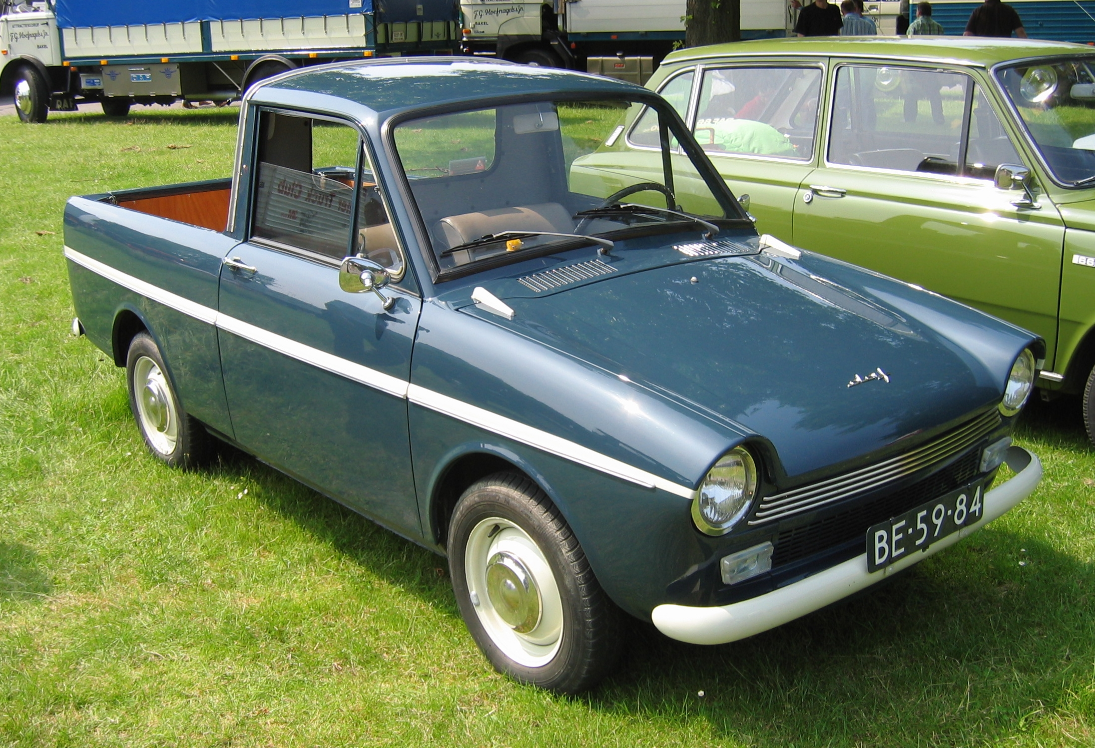 A DAF 32 at the DAF exposition during the Eindhoven Pole Position weekend.